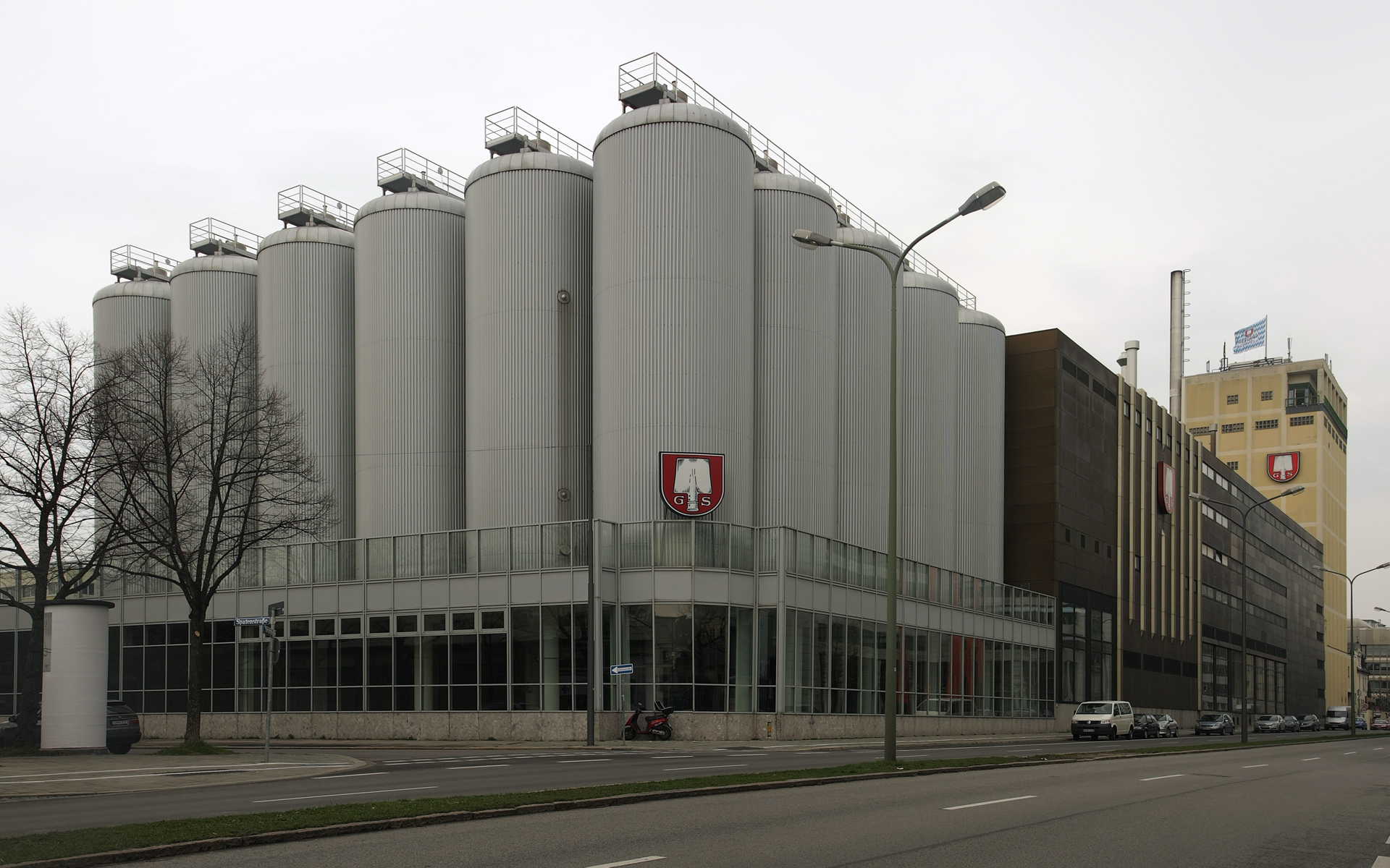 The Spaten-Franziskaner-Bräu factory.